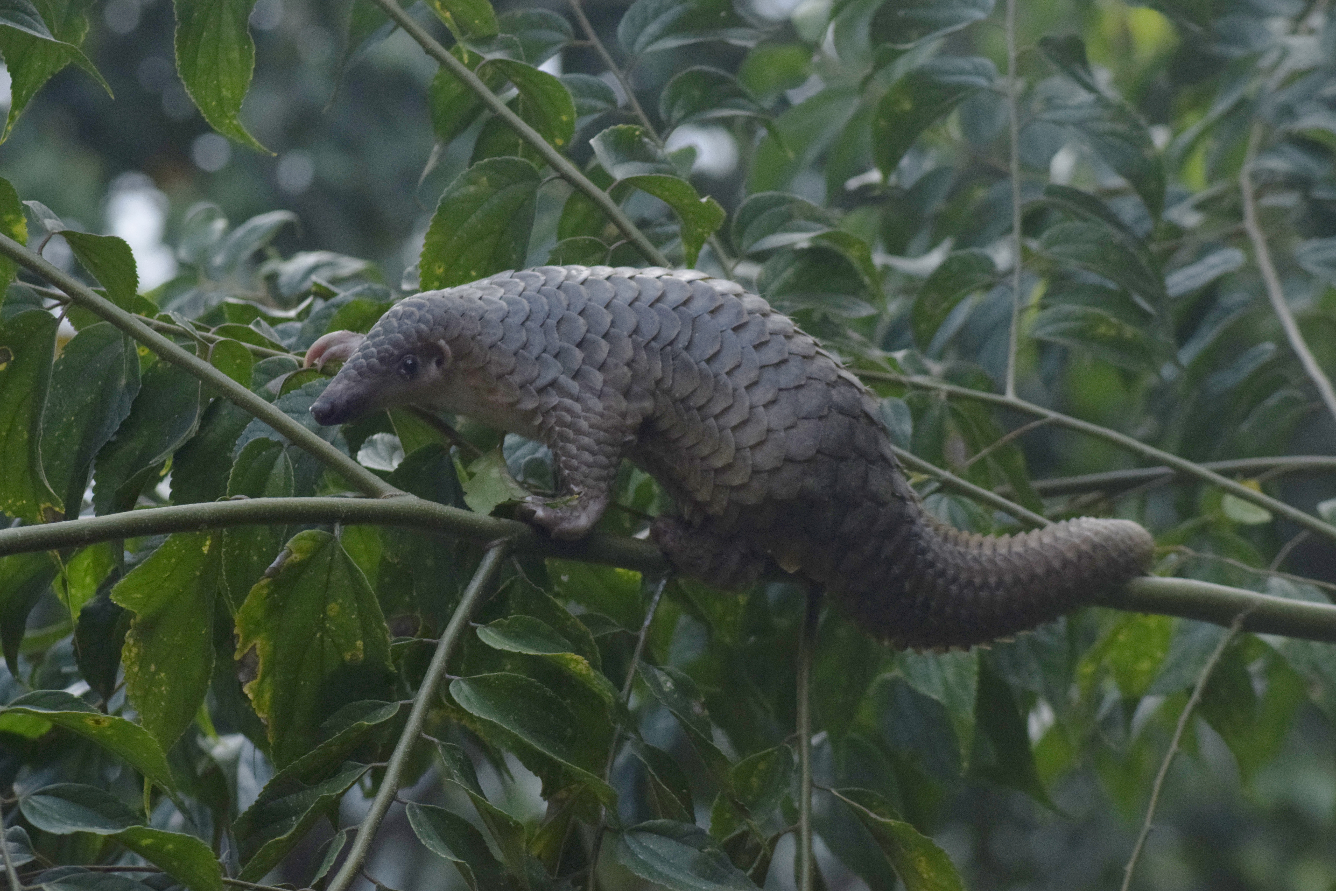 Tenggiling Sunda, also known as Tenggiling Malaya or Jawa (Manis javanica syn. Paramanis javanica) is a representative of the order of Pholidota which is still found in Southeast Asia. This animal is preferred over most ants and termites. Tenggiling lives in lowland tropical rain forests. Tenggiling is sometimes also known as anteater (ant eaters). Elongated shape, with a tongue that can be extended up to a third of its length to look for ants in the nest. Her hair was modified into a kind of large scales designed to protect herself. If disturbed, the tenggiling will roll its body like a ball. He can also wag his tail, so that the scales can hurt the skin disruption. The tenggiling is threatened with extinction because its habitat is disturbed and is the object of trade in liars (Black Market). Tenggiling is one of the animals that is permitted in Indonesia. Photo was taken in Pangombusan, Parmaksian, Pangombusan, Parmaksian, Kabupaten Toba Samosir, Sumatera Utara